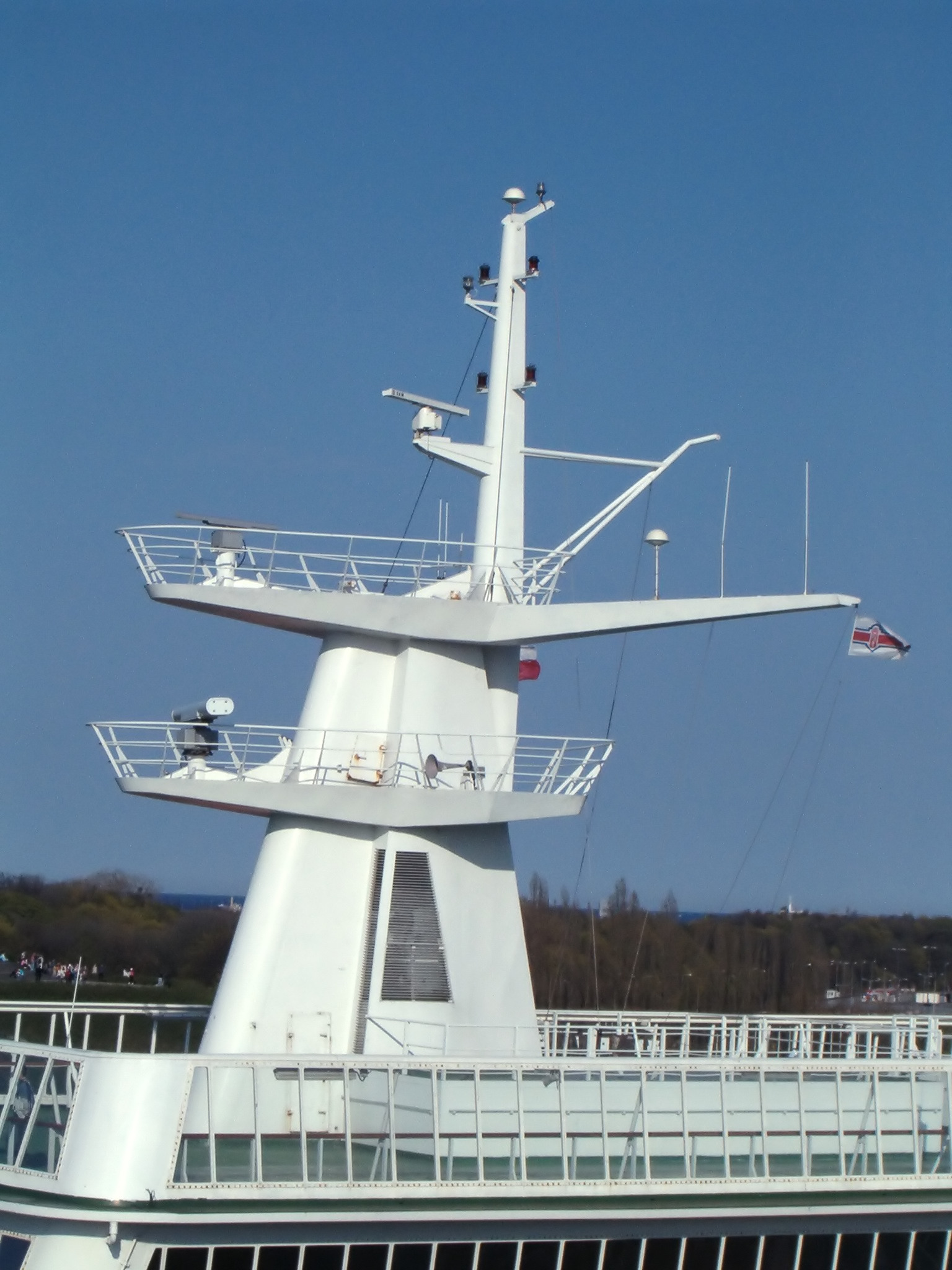 Mast of FS Scandinavia (Polferries)